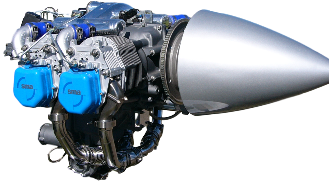 SMA SR305-230 aircraft diesel engine, background removed